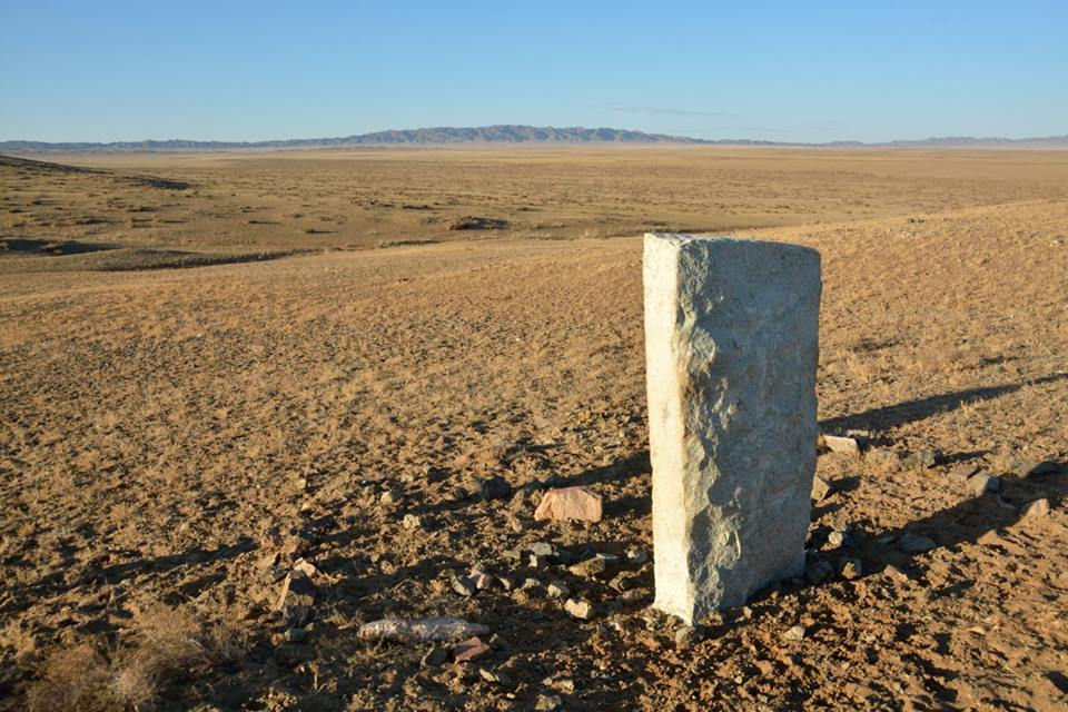 A monument erected at the spot where S. Dashdoorov was born. Photo by Gereltuv Dashdoorov